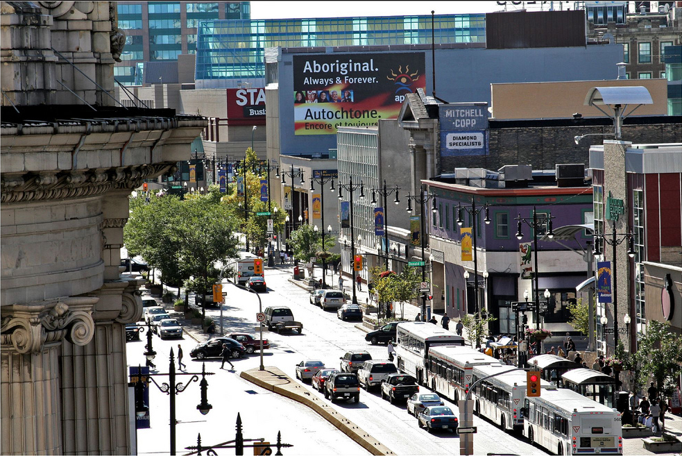 Portage Ave.